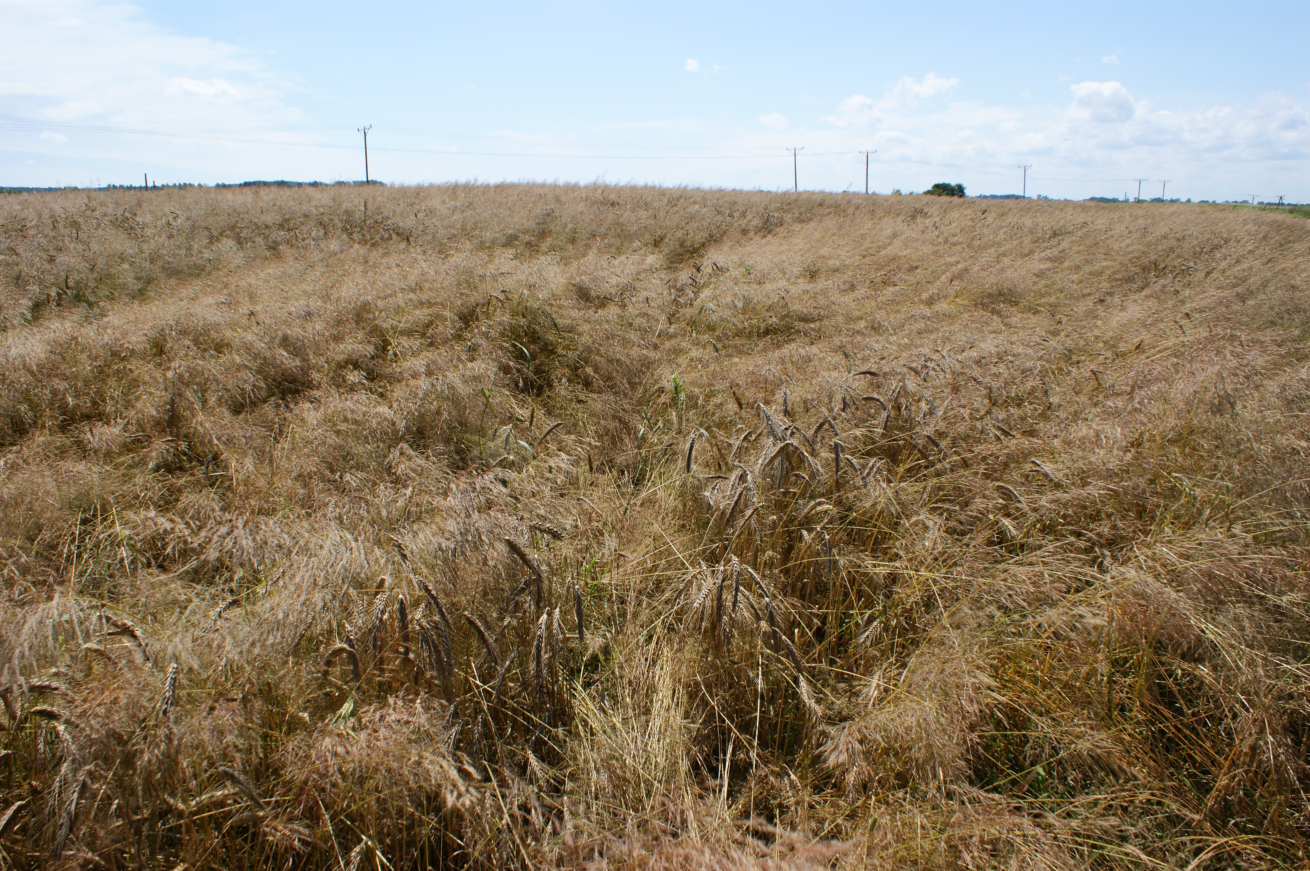 Apera spica-venti as a weed in Secale cereale field. Near Złocieniec NW Poland